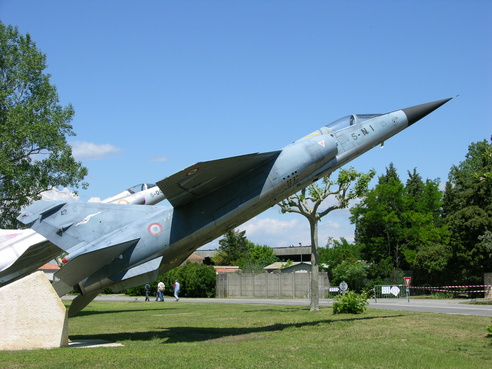 42 / 5-NI AMD Mirage F.1C Orange Air Base open day in May 2008. These fighter variants of the Mirage F-1 have been retired from service with the FAF Wearing the colours of EC 01.005 Vendée. All the gate guards are in the colours of and wear the codes of aircraft which have been based at the airfield with Escadron de Chasse (EC) 5.